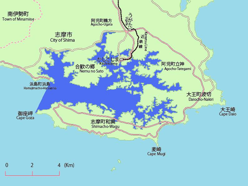 This is the map of Ago Bay in Shima,Mie,Japan. Bule is Ago Bay, Aqua is Philippine Sea, Pink is Japan Route, Yellow is Mie prefectural road.